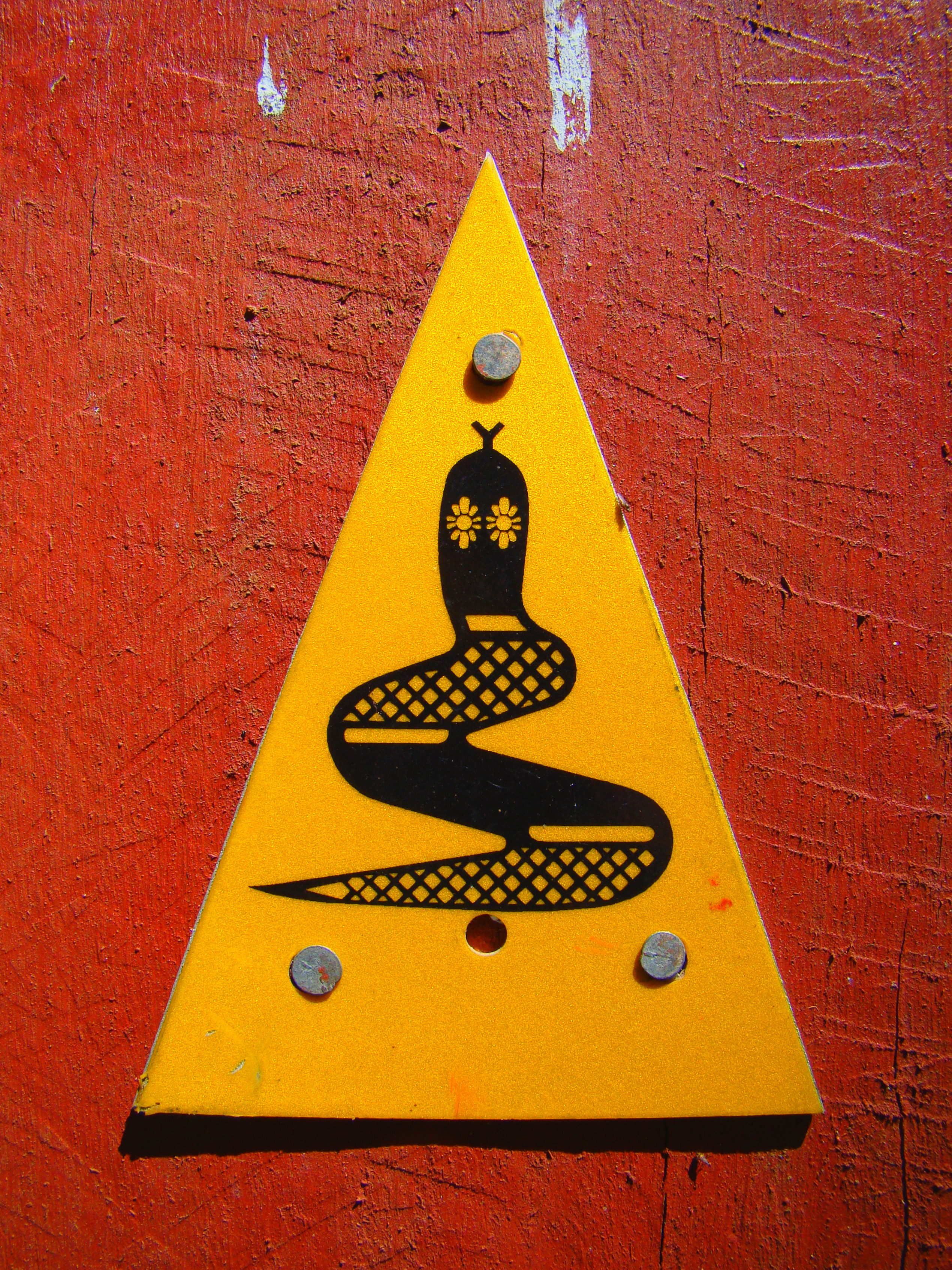 Waugals (yellow triangles with a black snake in the centre) are the official Bibbulmun Track trailmarkers between Kalamunda and Albany in Western Australia. Always remember to "Follow the Waugals!"